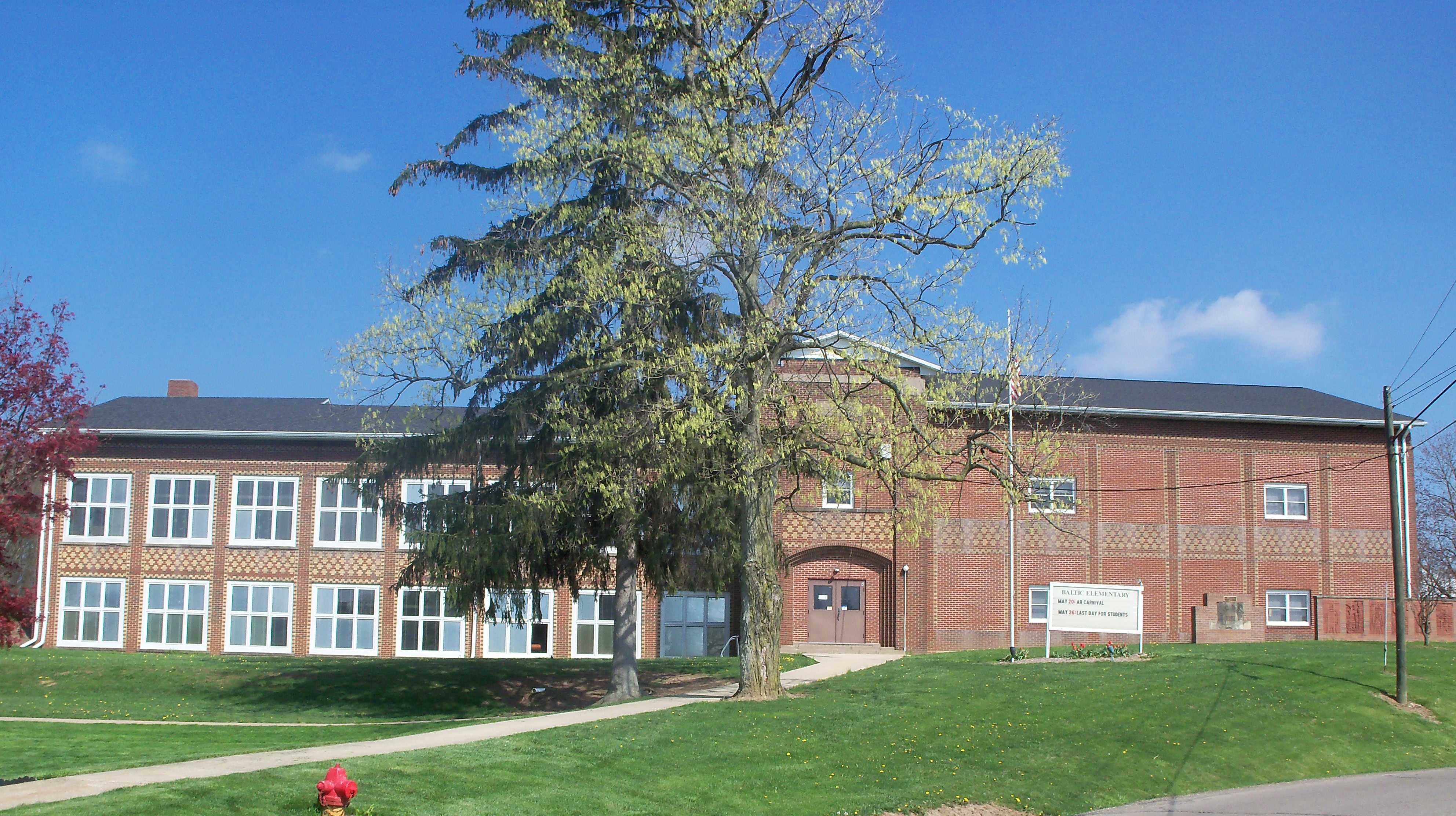 Elementary School in Baltic, Ohio, affiliated with the Garaway Local School District